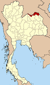 Map of Thailand highlighting Nong Khai province